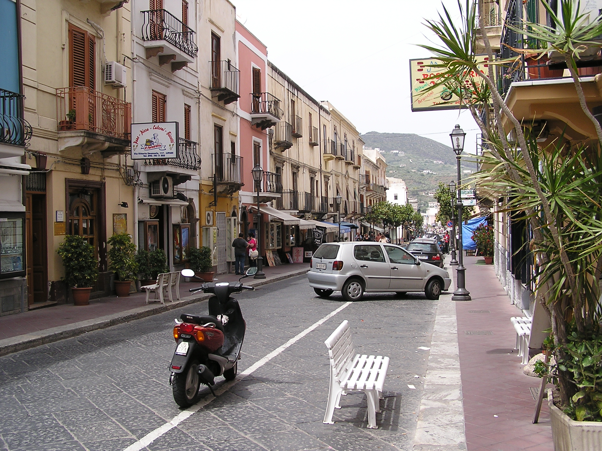 Lipari town, main street